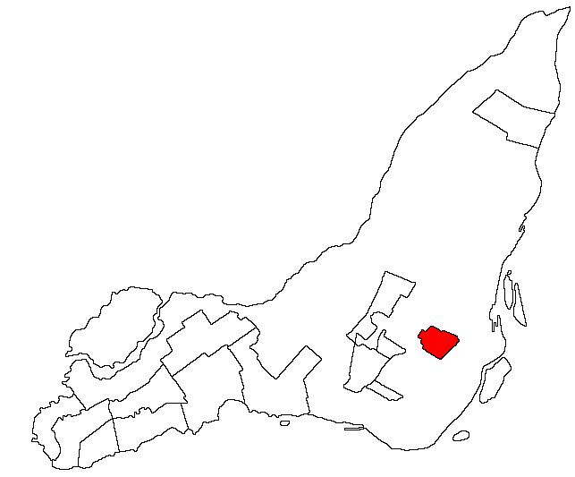 Map of Westmount on the Isle of Montreal